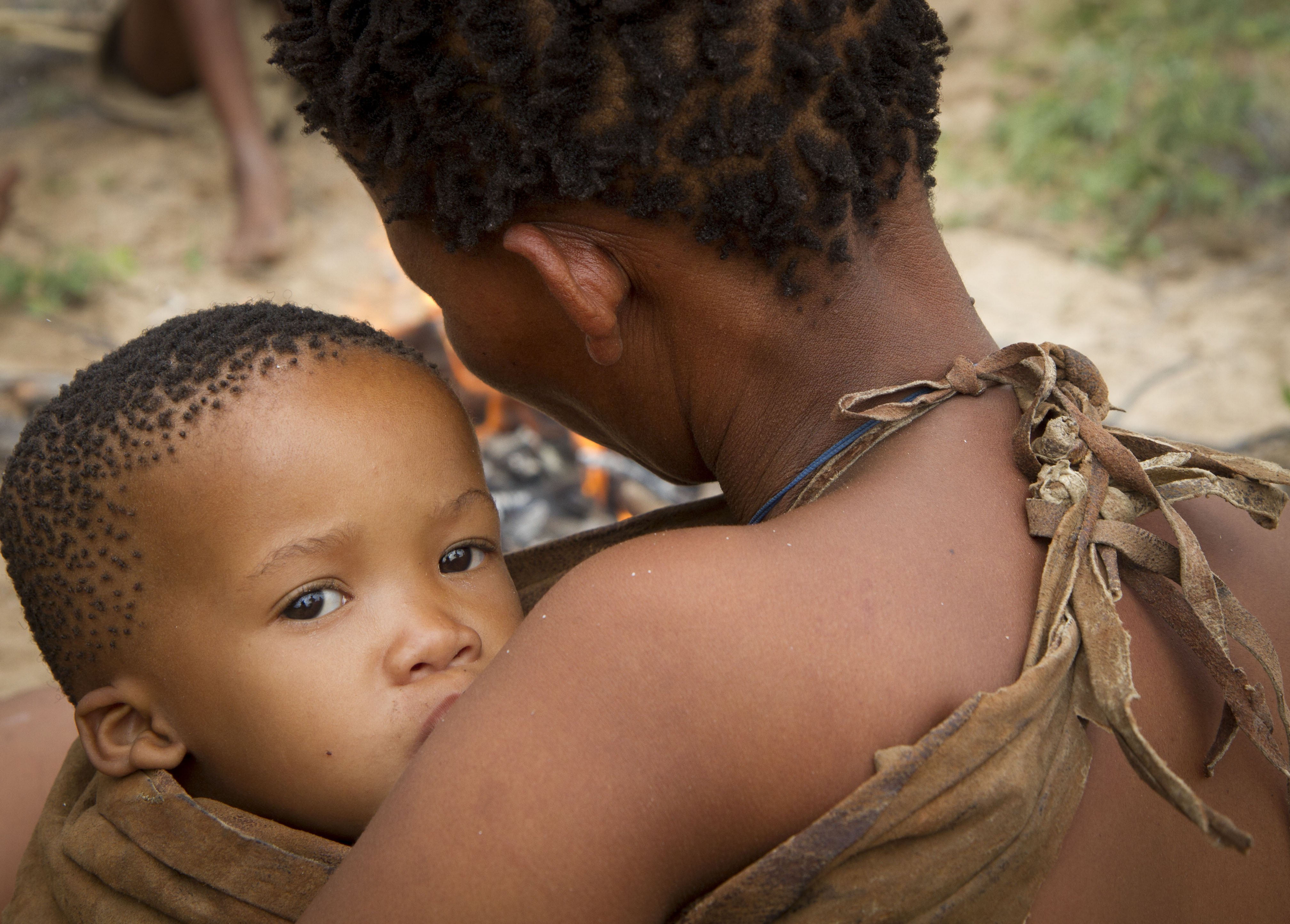 Day with bushman in Grassland Bushman Lodge, Botswana